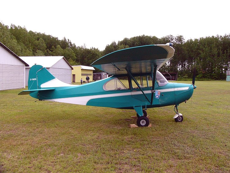 I took this photo of an Aeronca Champion 7-FC Tri-Champ at the Cobden, Ontario Fly-in on 11 June 2006.